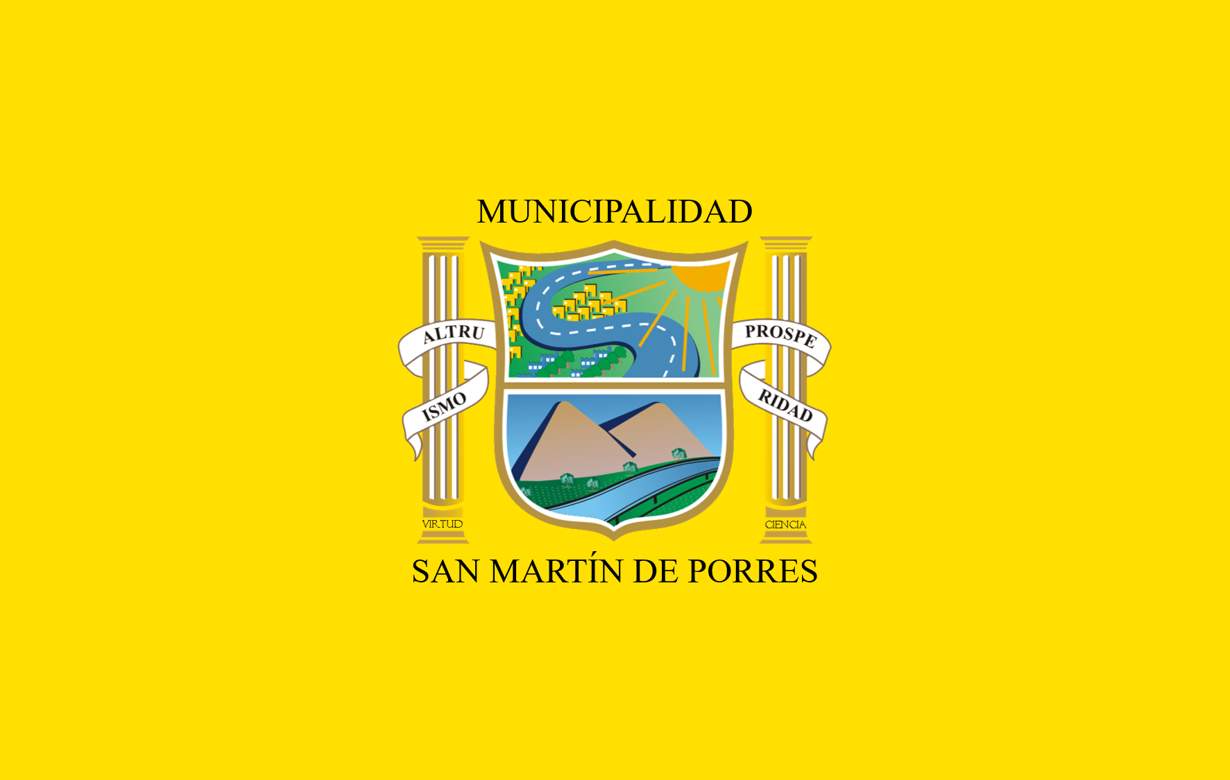 San Martín de Porres